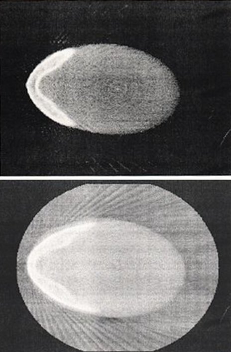 Axial image obtained from the first Cone-Beam 3D Scan performed on July 1st 1994